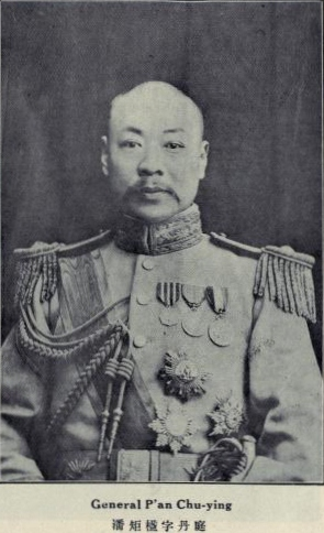 Pan Juying, Danting (born 1882)